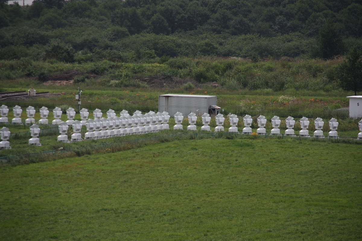 NoRH (Nobeyama Radioheliograph)